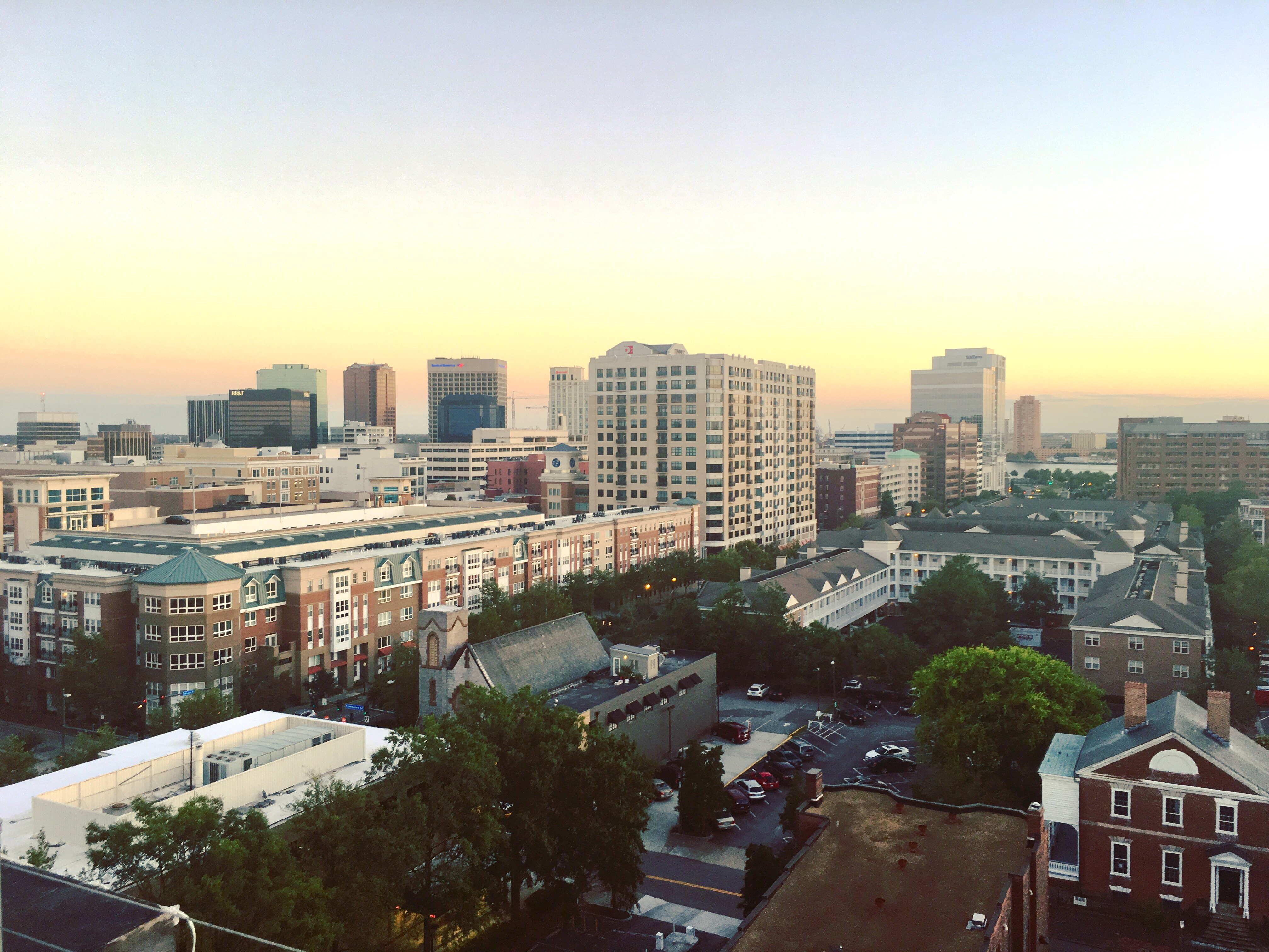 Skyline of Downtown Norfolk Looking Towards Portsmouth